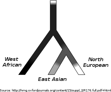 The evolutionary genetic architecture of skin pigmentation in three populations. The tree shows the average relationships among three human populations, with generalized deduced skin pigmentation level of these populations indicated by shading on the branches. Adapted from (Fig 1)